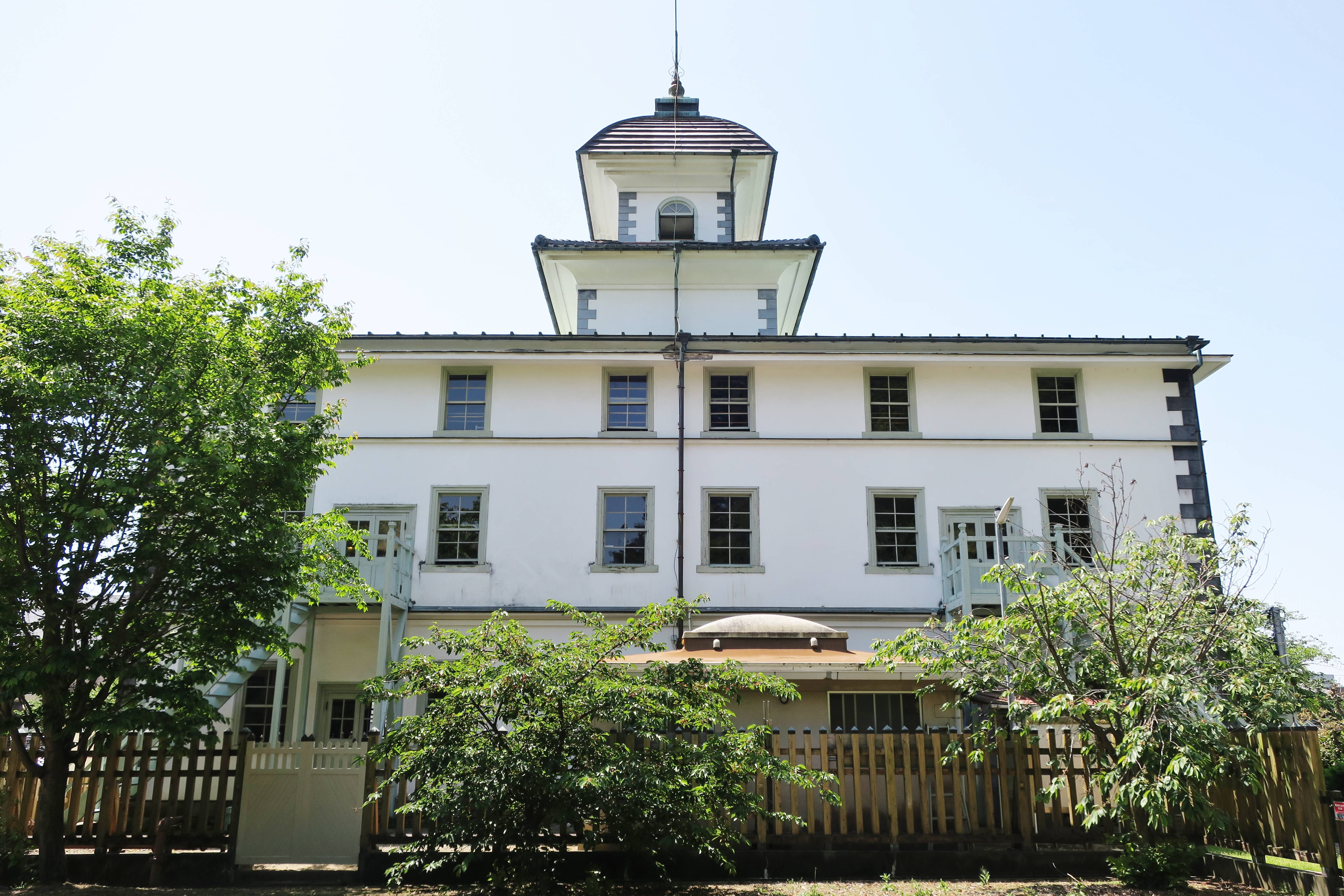 Old Mitsuke School (Iwata, Shizuoka).